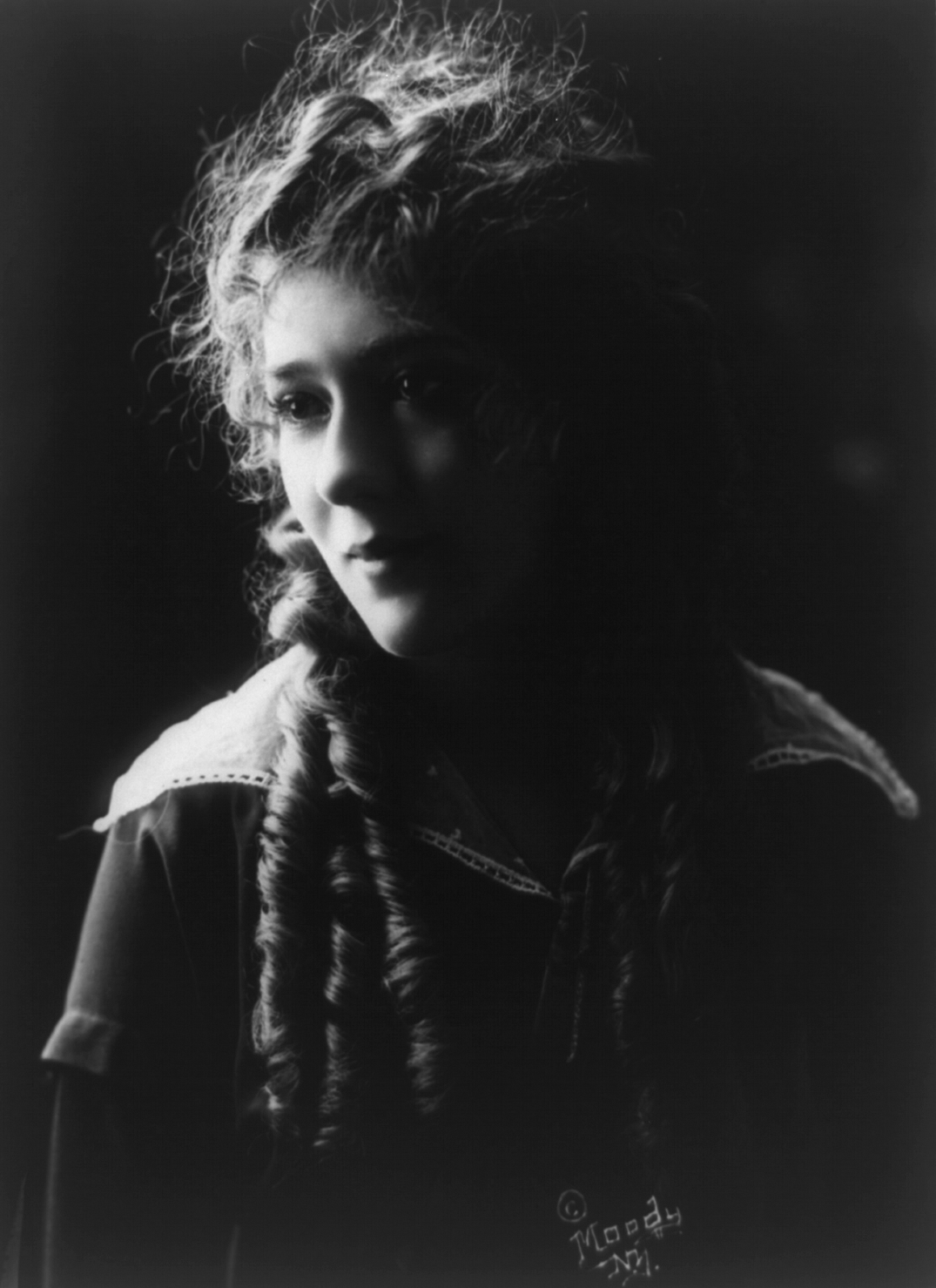 Mary Pickford, half-length portrait, facing left